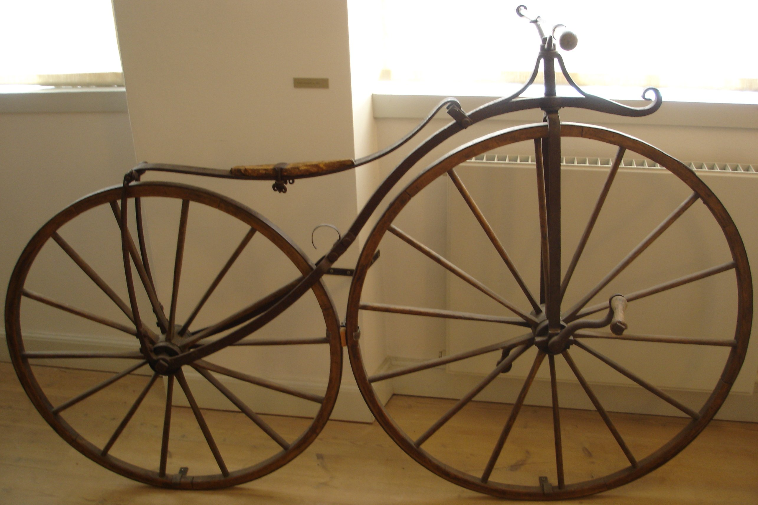 Bicycle, ca. 1865. Roskilde Museum, Denmark.